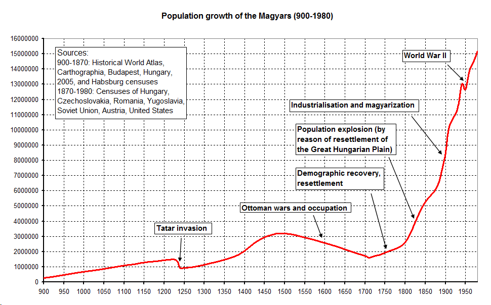 Magyar population (900-1980). Sources: 900-1870: Historical World Atlas. With the commendation of the Royal Geographical Society. Carthographia, Budapest, Hungary, 2005. ISBN 963-352-002-9CM, and Habsburg censuses 1870-1980: Censuses of Hungary, Austria, Yugoslavia, Romania, Czechoslovakia, Soviet Union, United States